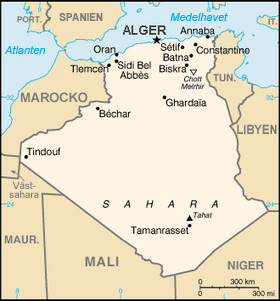 Map of Algeria, from the CIA World Factbook (with French text) :Same image, with English text, in Image:Ag-map.png